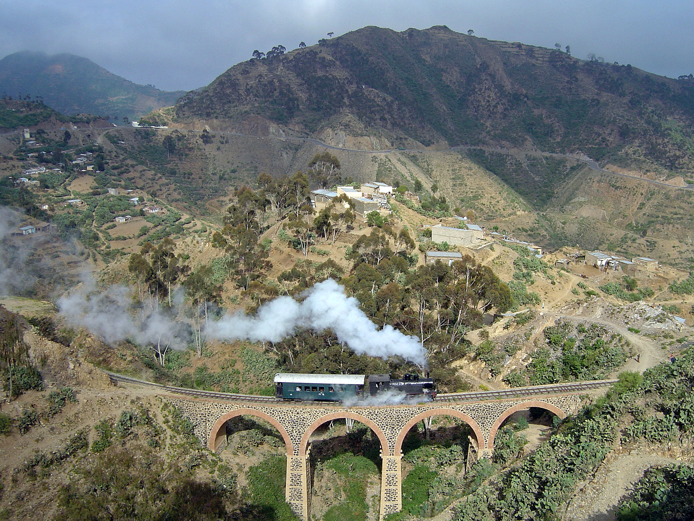 Eritrean Railway, showing mountainous terrain traversed between Arbaroba and Asmara.